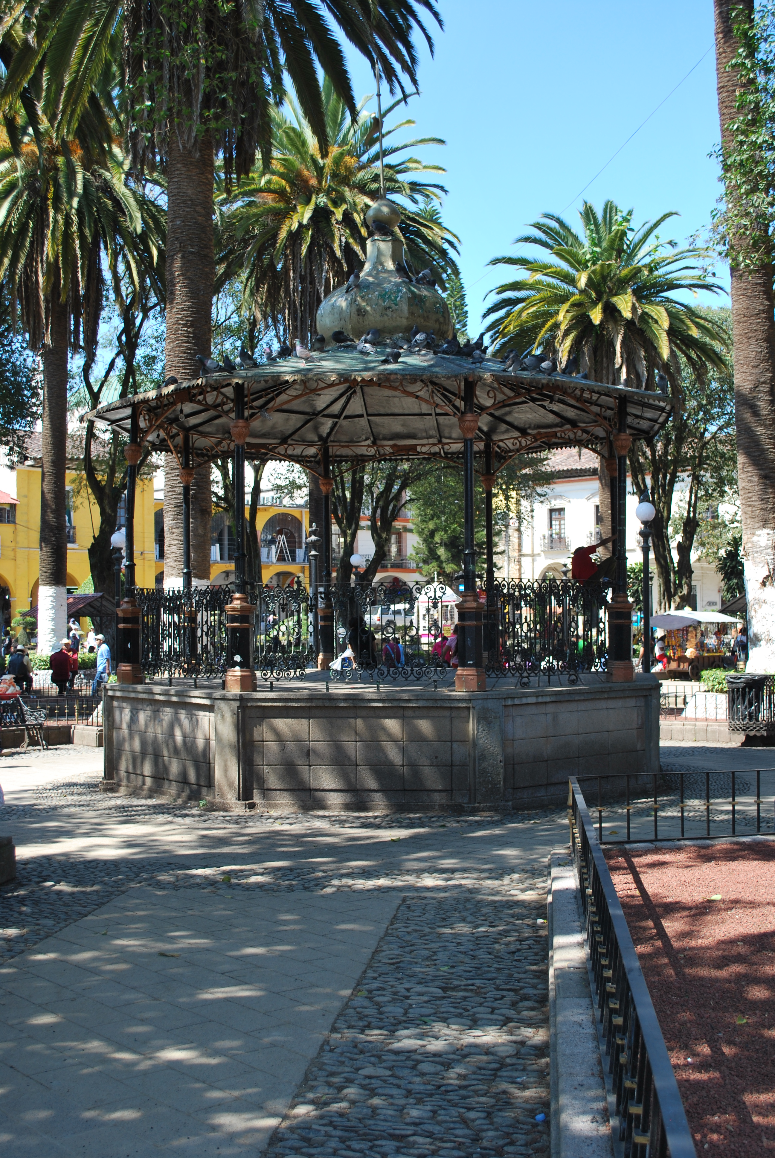 Kiosk in the main plaza of Huauchinango, Puebla, Mexico